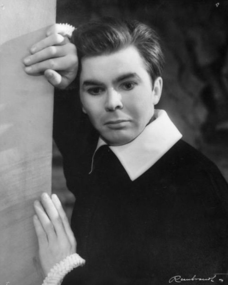 Photograph of the Finnish stage actor Algot Böstman (1935–2020) in his role as Daniel Hjort in the play by Josef Julius Wecksell.